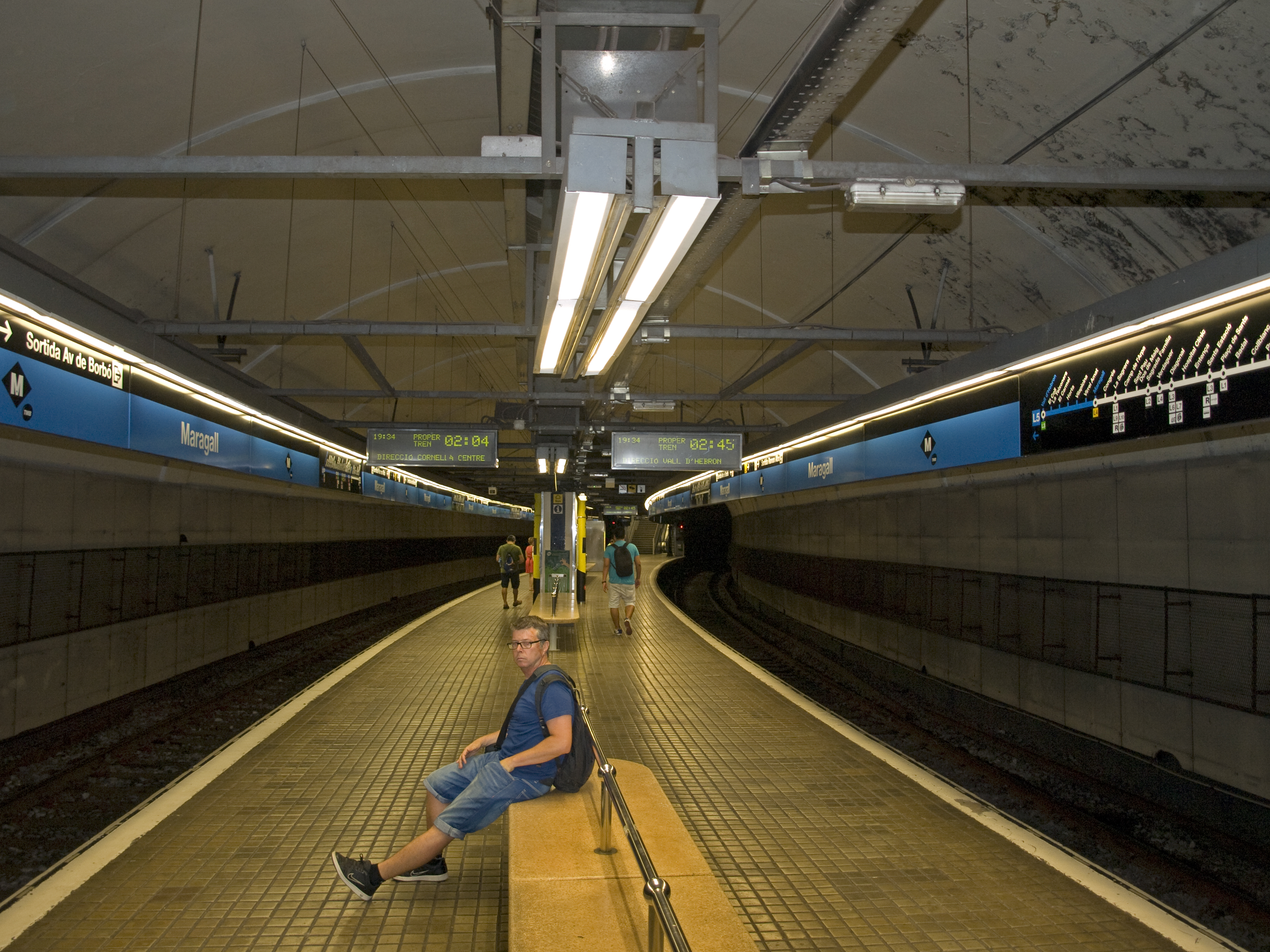 Magarall station platform Line L5, Barcelona Metro